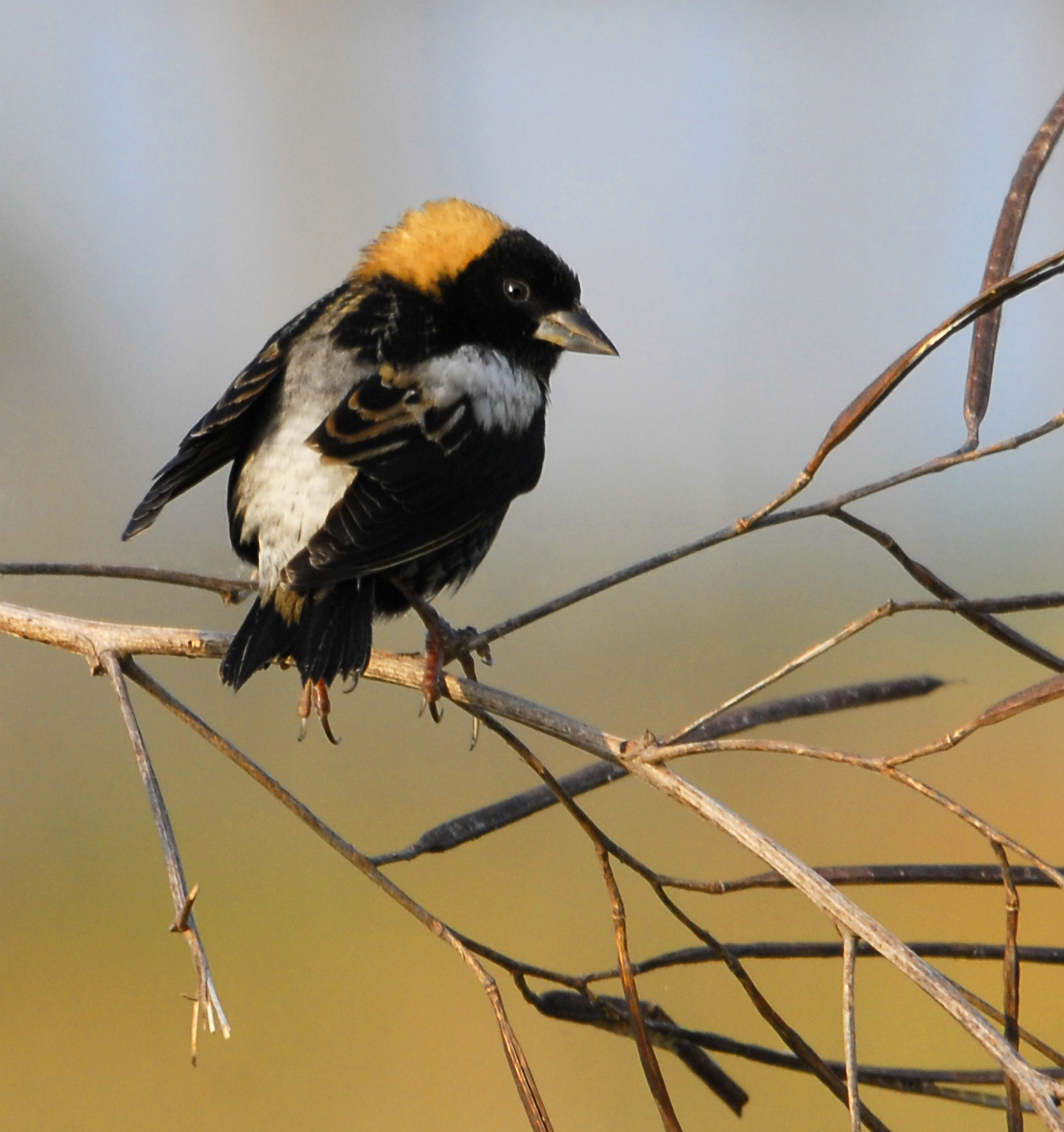 New Bobolink Series from Lake Woodruff